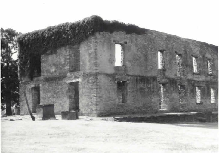 West Barracks, north and west facades, looking southeast. Fort Washita site near Durant, Oklahoma, United States of America.